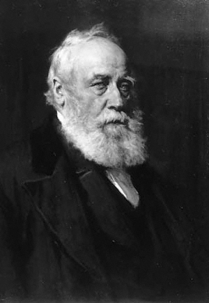 Portrait (darkened) of William Forbes Skene, legendary Scottish historian